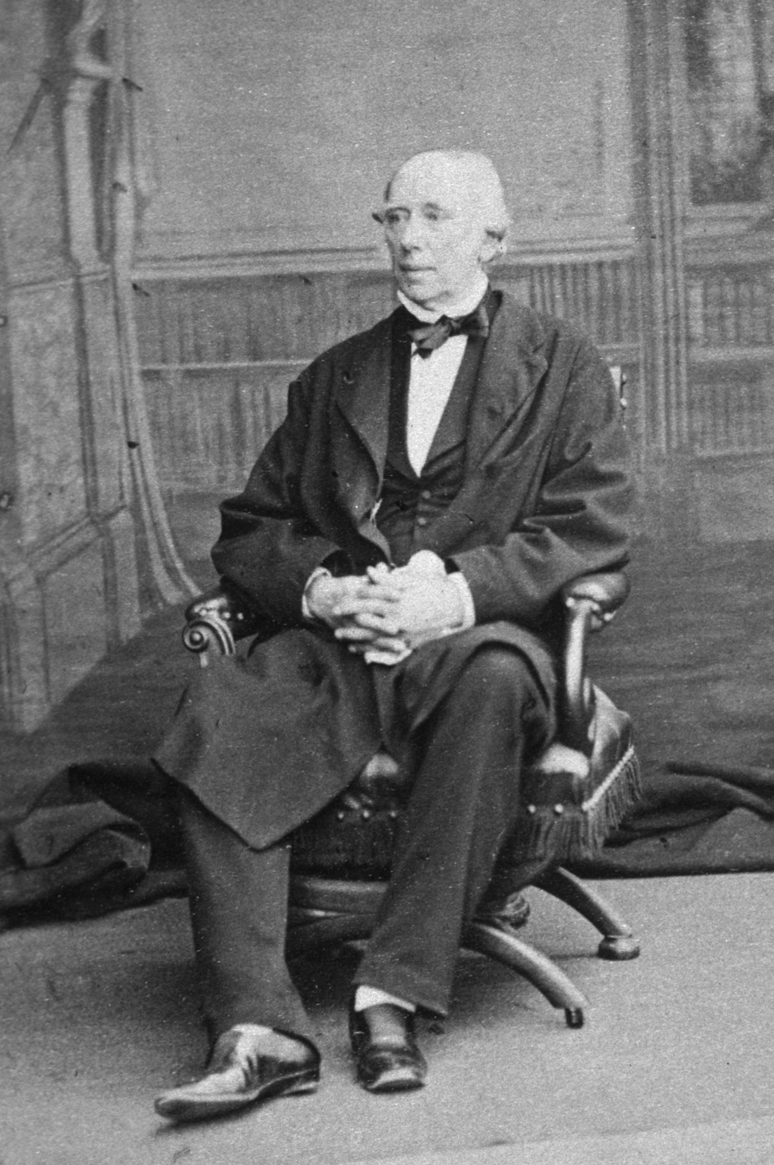 Sir Charles Hastings (1794–1866)